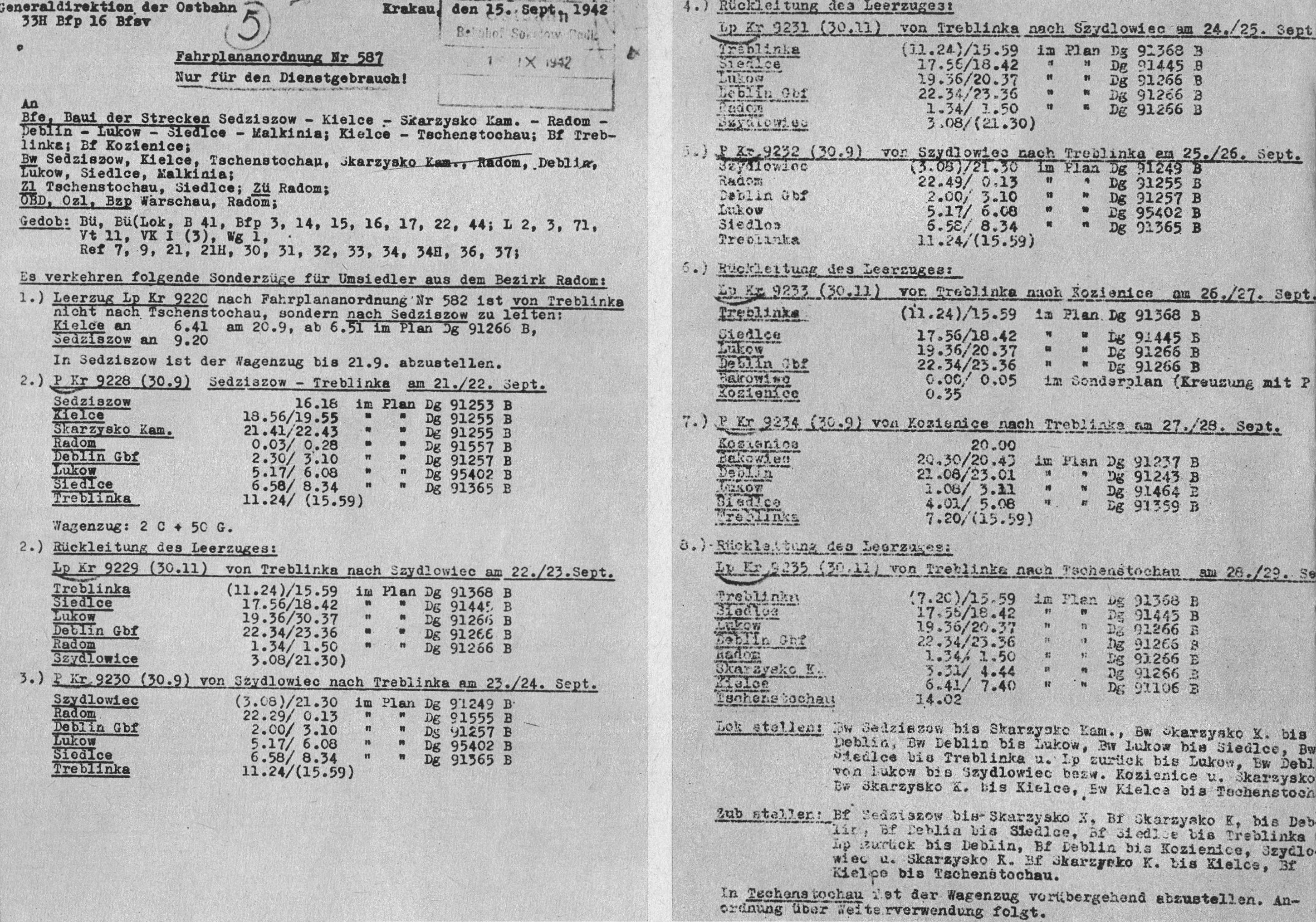 Timetable no 587 of 15 September, 1942, from Radom district to Treblinka